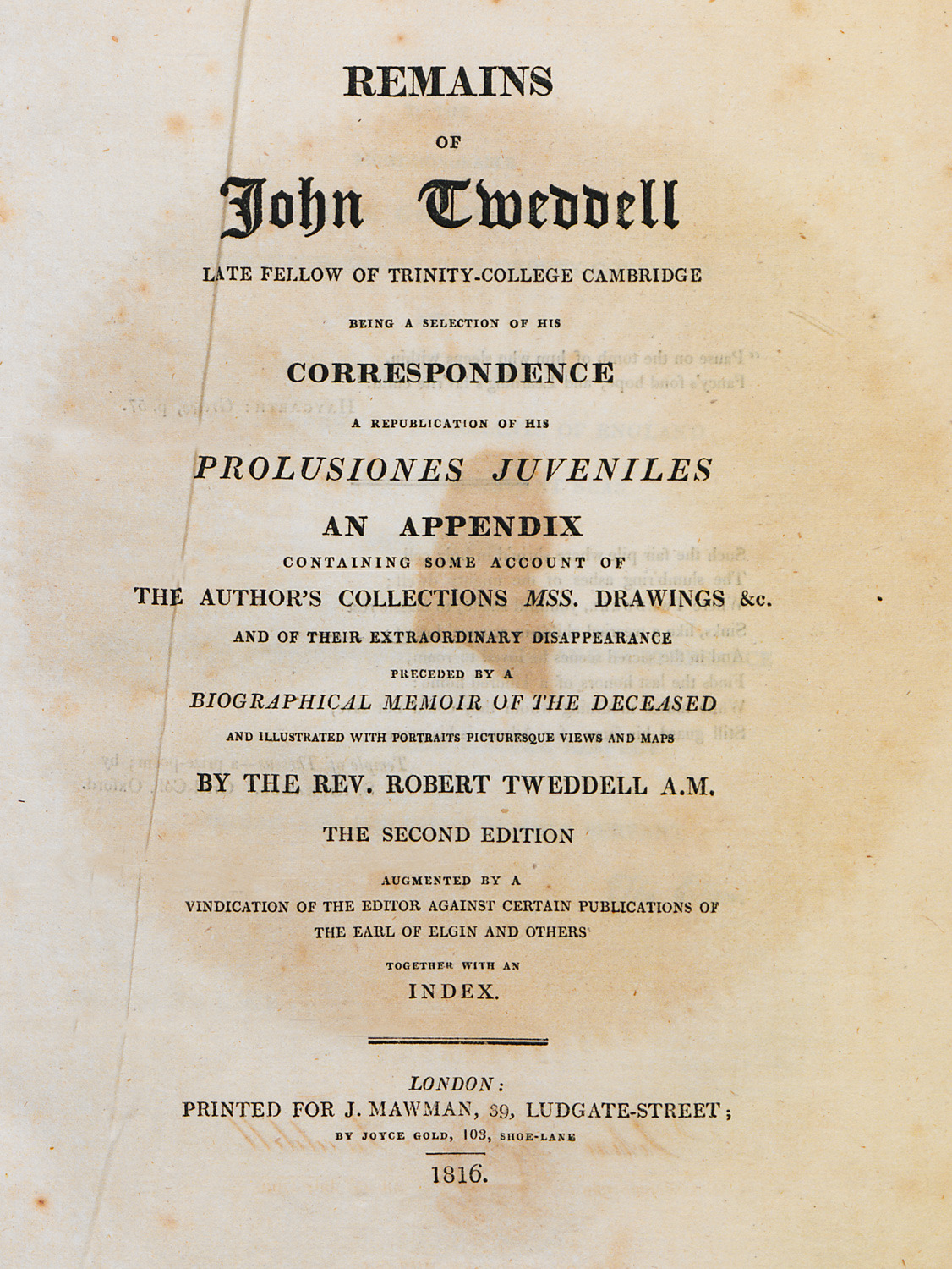 Account of the examination of the Elgin-box - Title page, 2nd edition (as Remains of John Tweddell) - Tweddell Robert - 1817